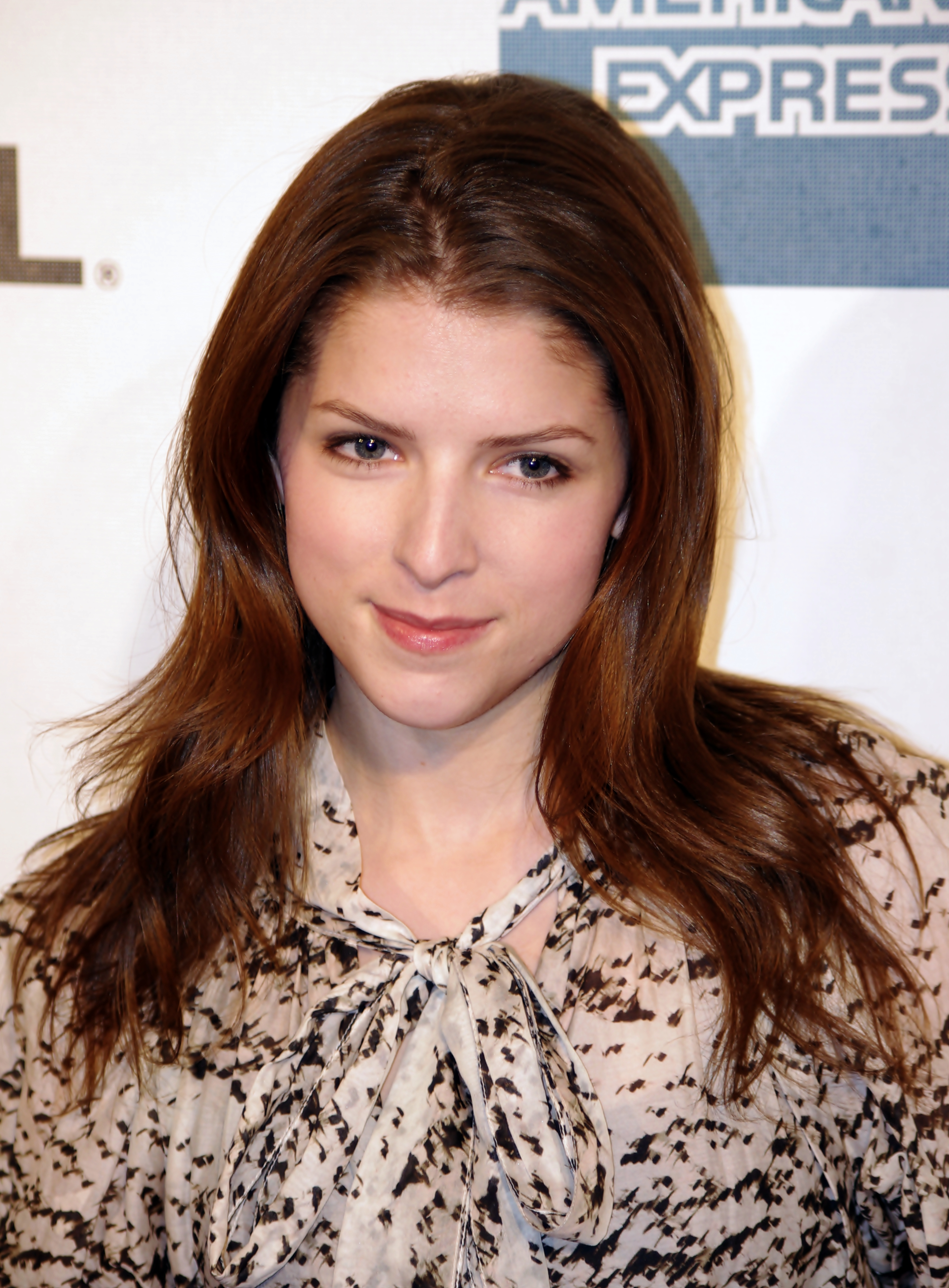 Anna Kendrick at the 2011 Tribeca Film Festival opening of The Bang Bang Club.